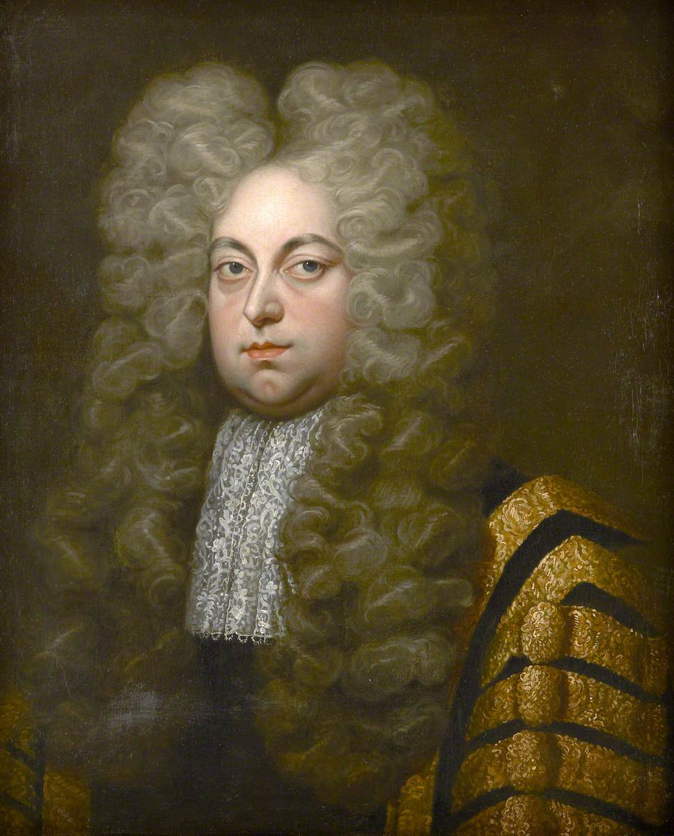 Portrait of Sir Nathan Wright, Lord Chancellor